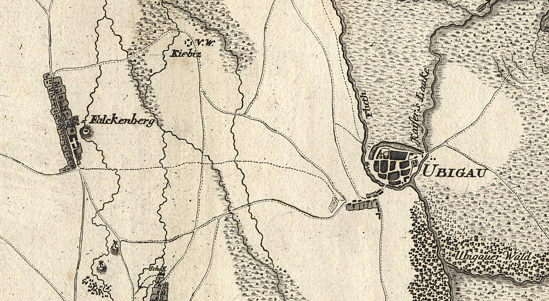 part (Uebigau) of the map "Situations und Cabinets=Carte von einem anderen Teile des Churfürstentums Sachsen" Major Isaak Jacob von Petri